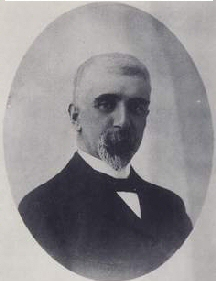 Paolo Gaffuri original photo